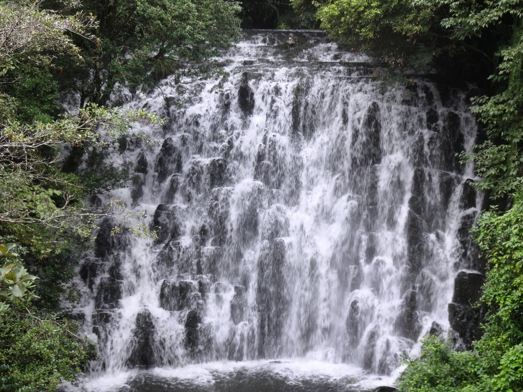 1st fall of the Elephanta Falls, Shillong, Meghalaya, India